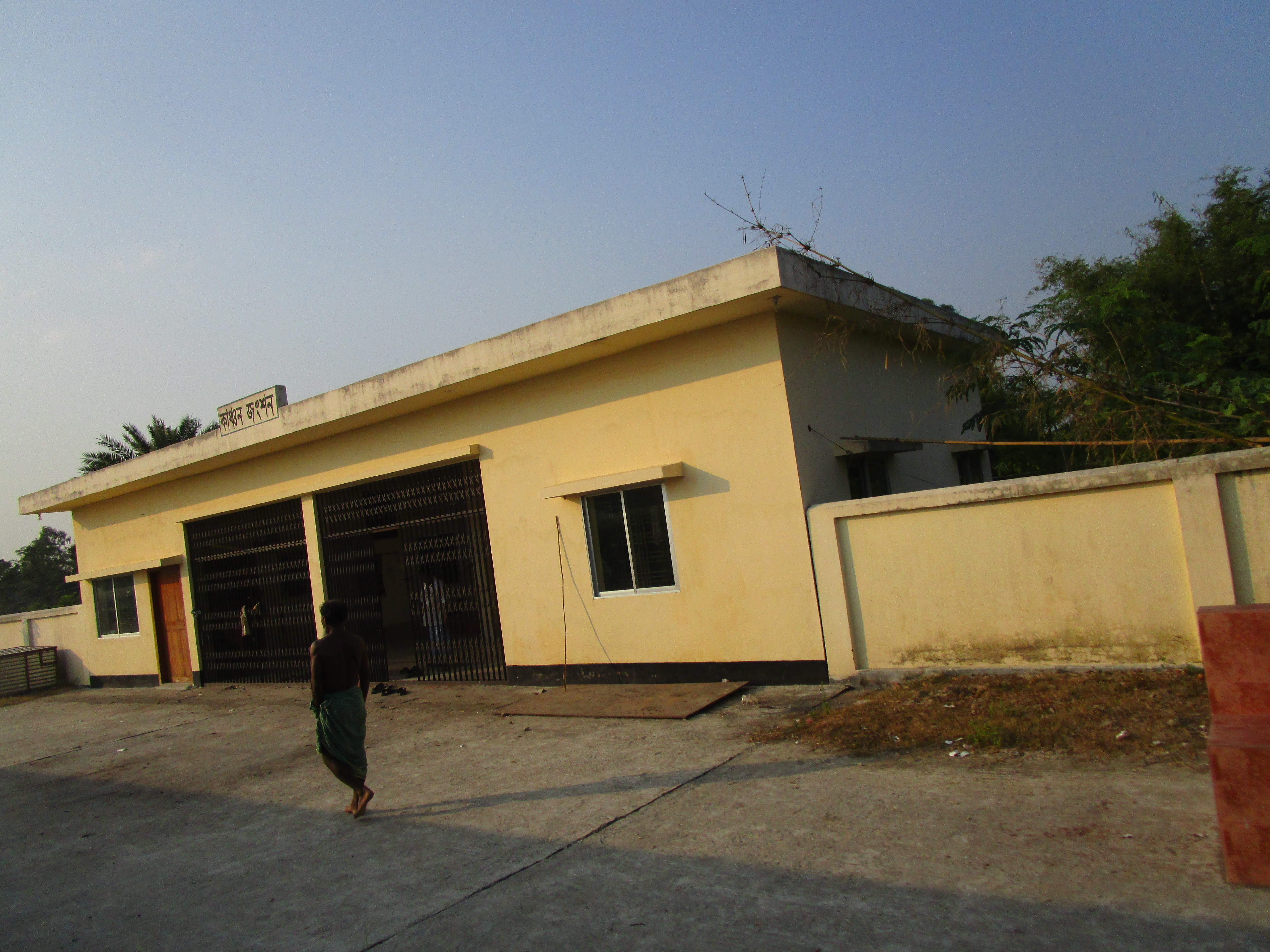 The office of Kanchan Junction Railway Station.